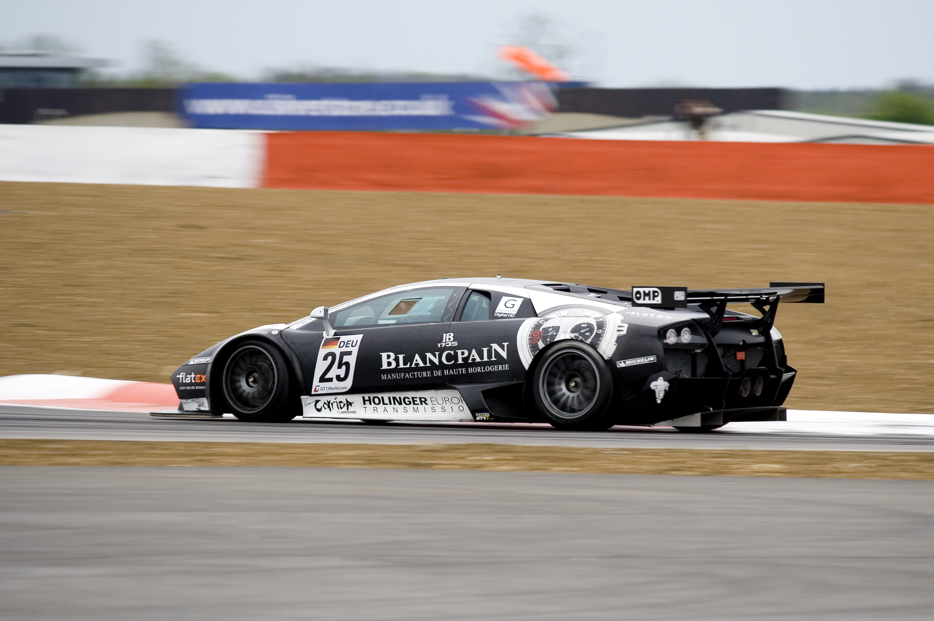 FIA GT1 Qualifying Race - Lamborghini Murcielago 670 R-SV (Reiter)